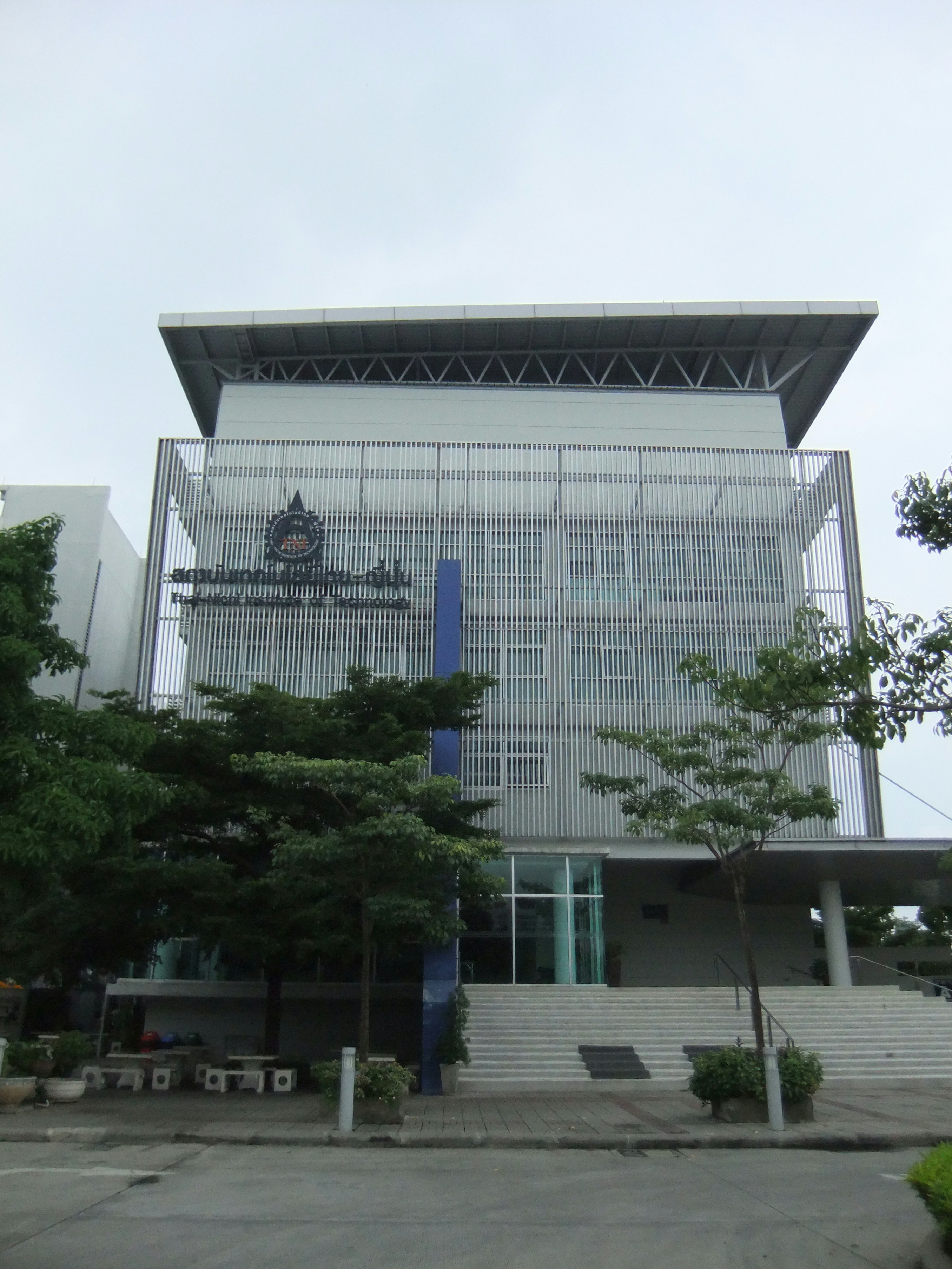 One of the buildings on the campus of Thai-Nichi Institute of Technology